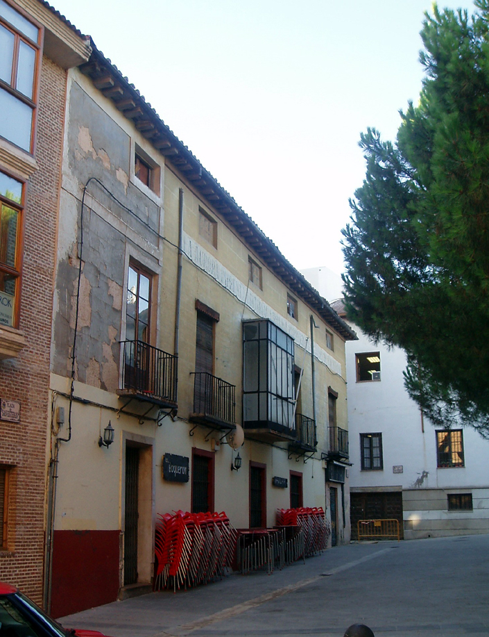 Viscount of Palazuelos Palace, in Guadalajra, Spain.